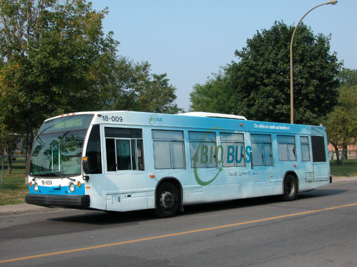 A biodisel bus at Montreal